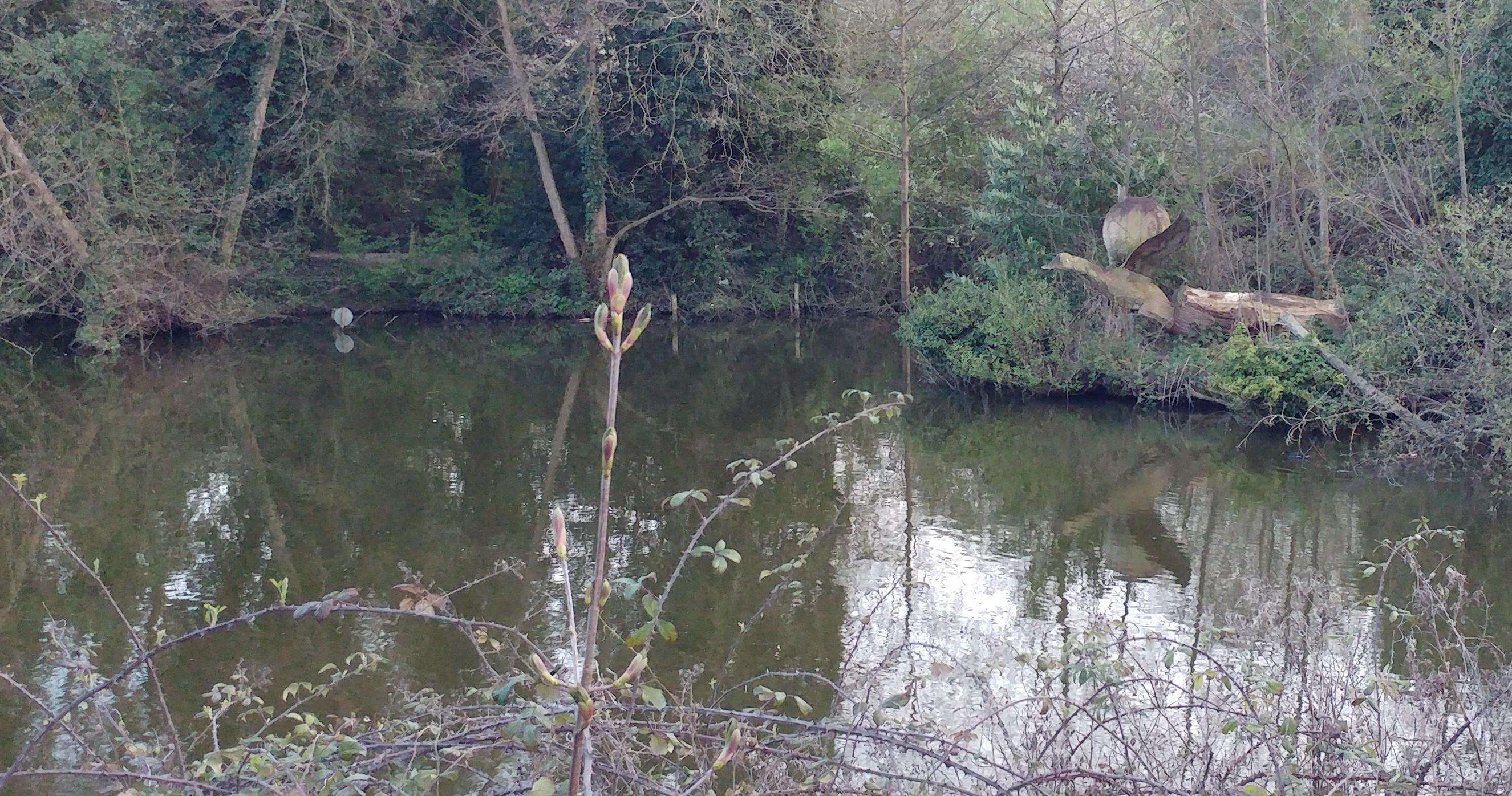 The Duck and the World wood sculpture found at Maiden Erlegh Local nature reserve